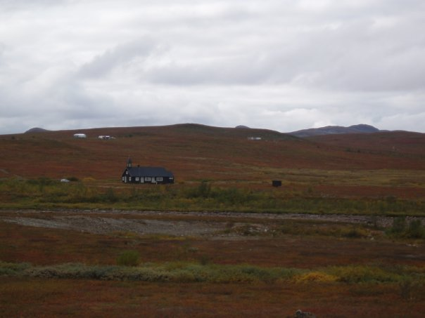 The chapel Duottar Sion (Zion of the Highland Plains) on Sennalandet (Sámi: Suoidneleakši) between Alta and Kvalsund in Finnmark